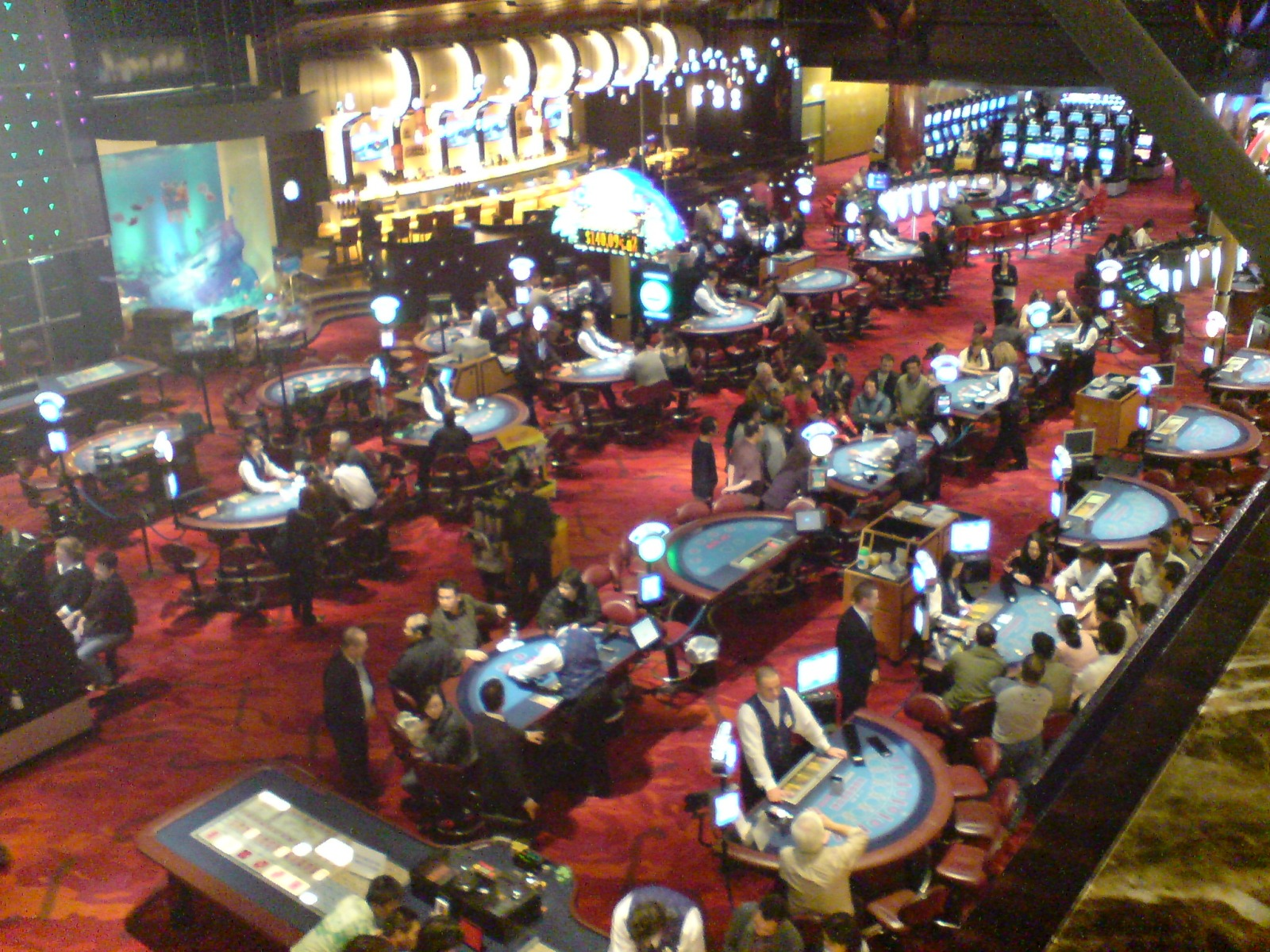 The SKYCITY Auckland, Auckland City, New Zealand casino from a walkway above the main gaming hall.